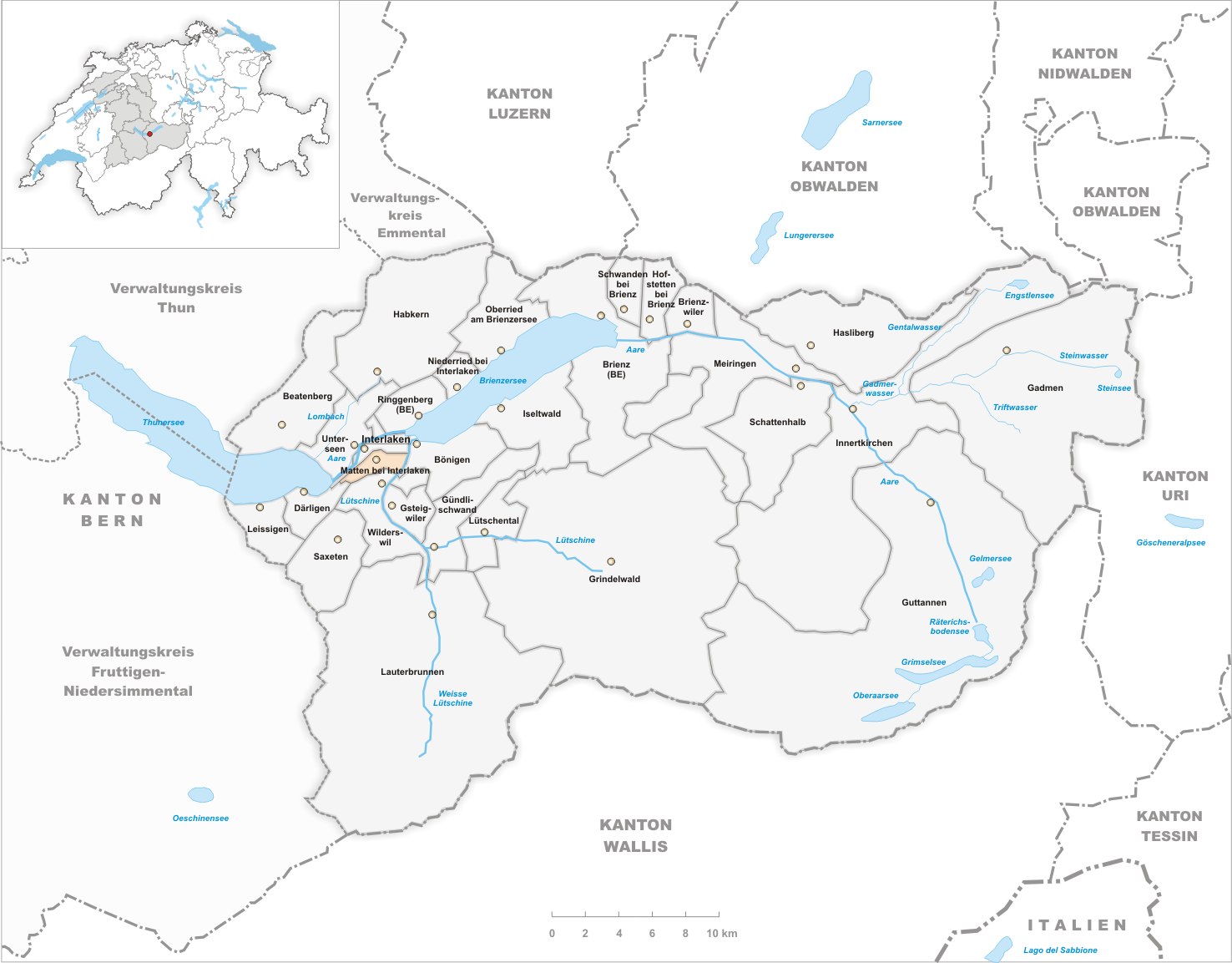 Municipality Matten bei Interlaken